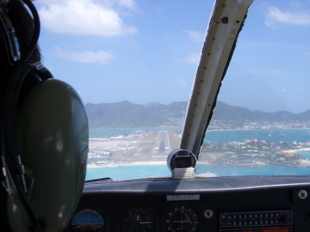 View from the cockpit of an aircraft apporaching Princess Juliana Airport